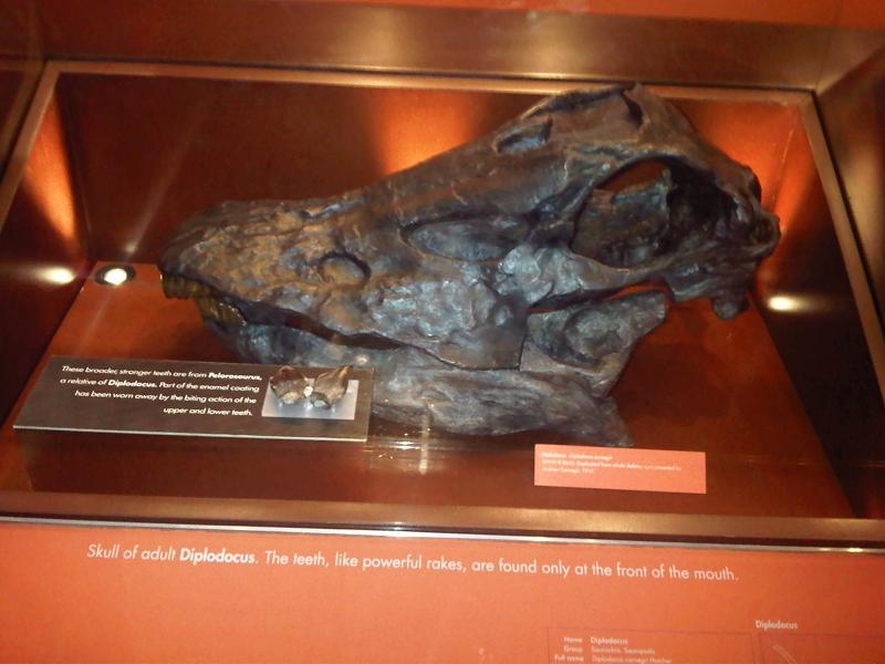 Skull cast based on specimen USNM 2673, which is now Galeamopus pabsti, at the Natural History Museum in London, England.